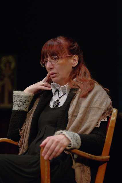 Силвана Хаџи-Ђокић